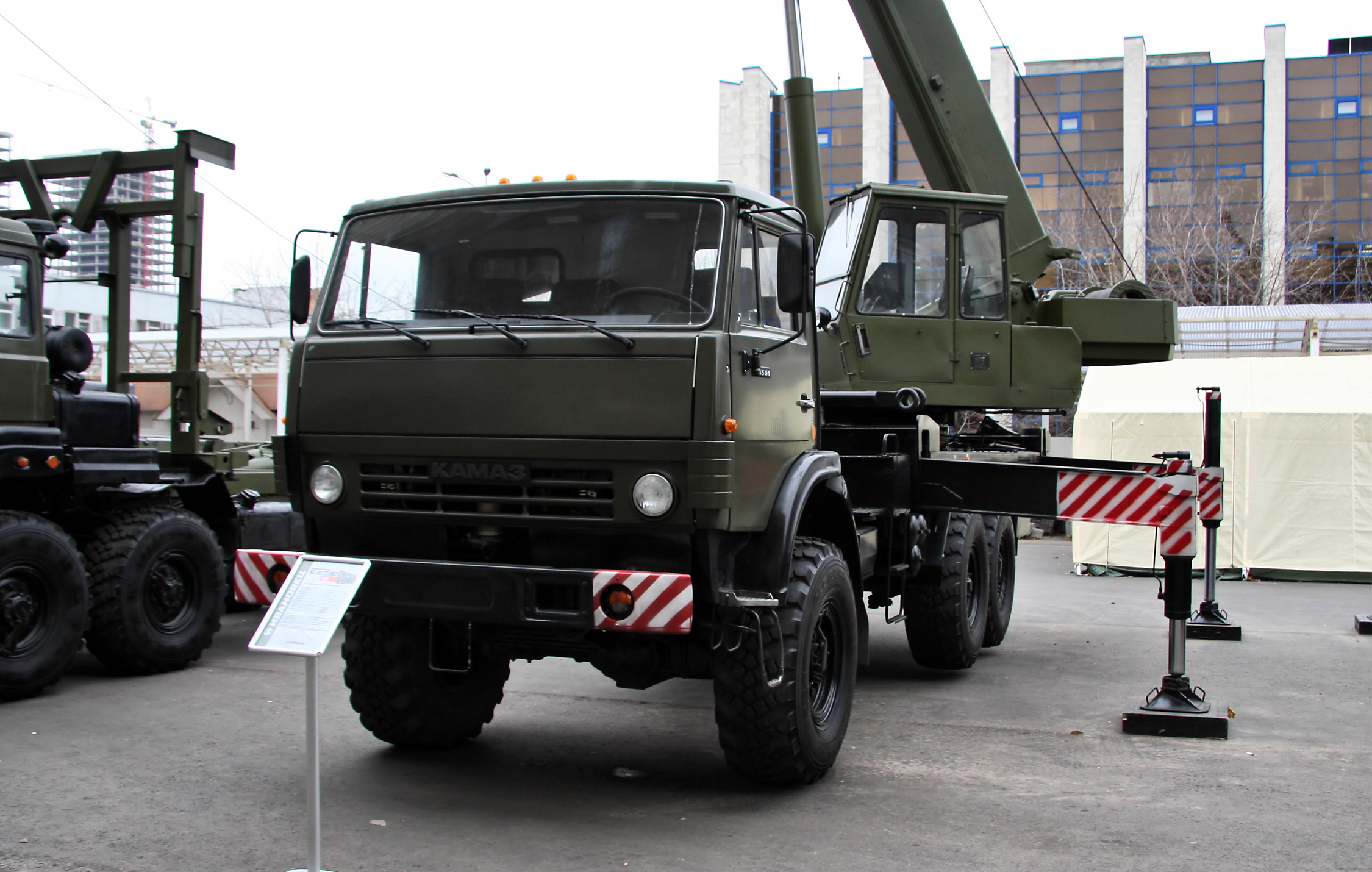 16t. crane KS-45731M2 on KAMAZ-53501 chassis